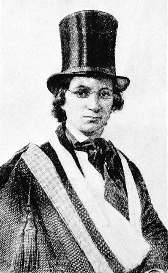 Image from: "The Underground Railroad from Slavery to Freedom" By Wilbur Henry Siebert, Albert Bushnell Hart Edition: 2 Published by Macmillan, 1898, pg. 162[1]